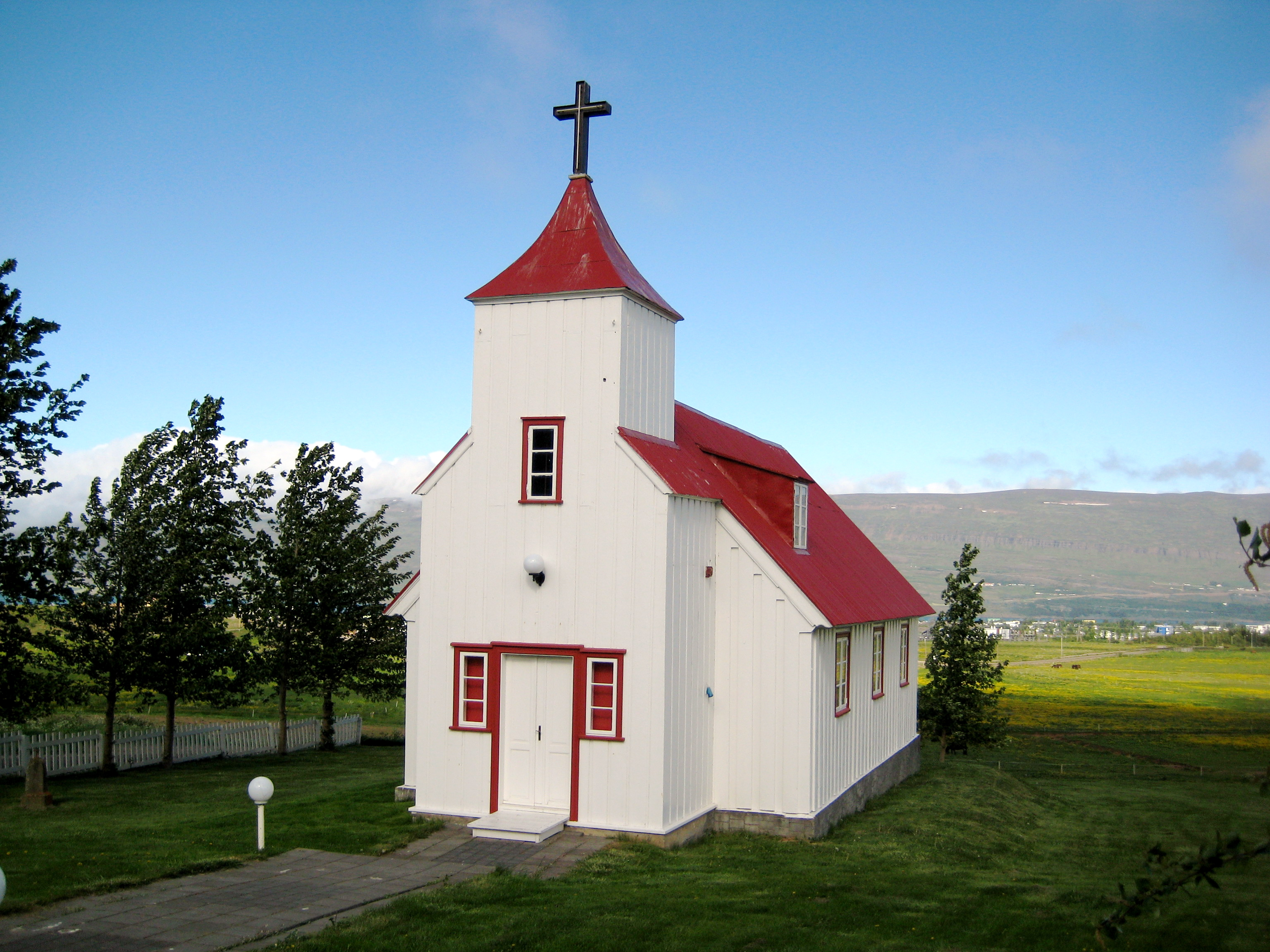 Lögmannshlíðarkirkja is a lutheran church outside the Icelandic town of Akureyri.